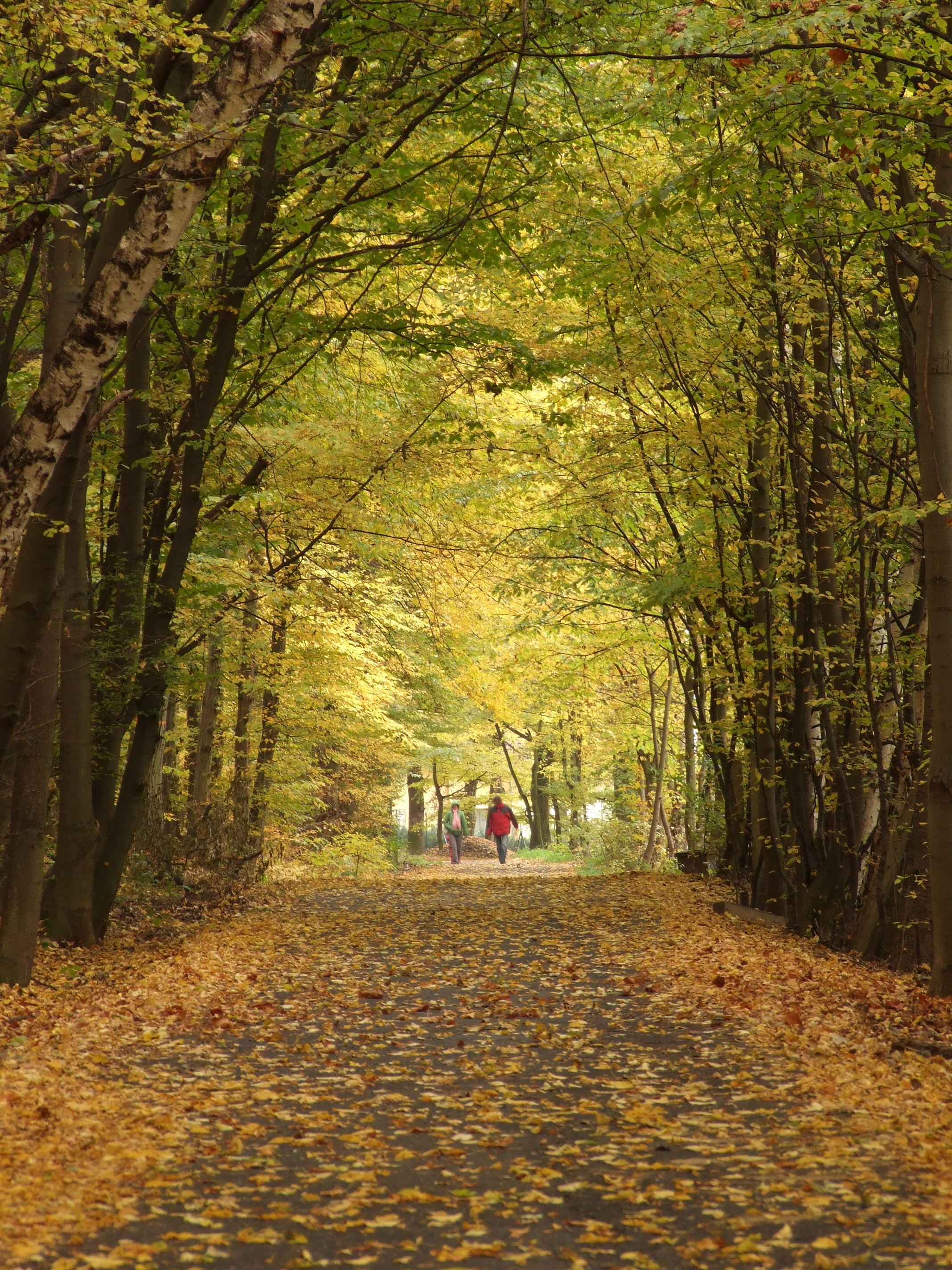 Kunratický les forest in Prague during autumn, CZ